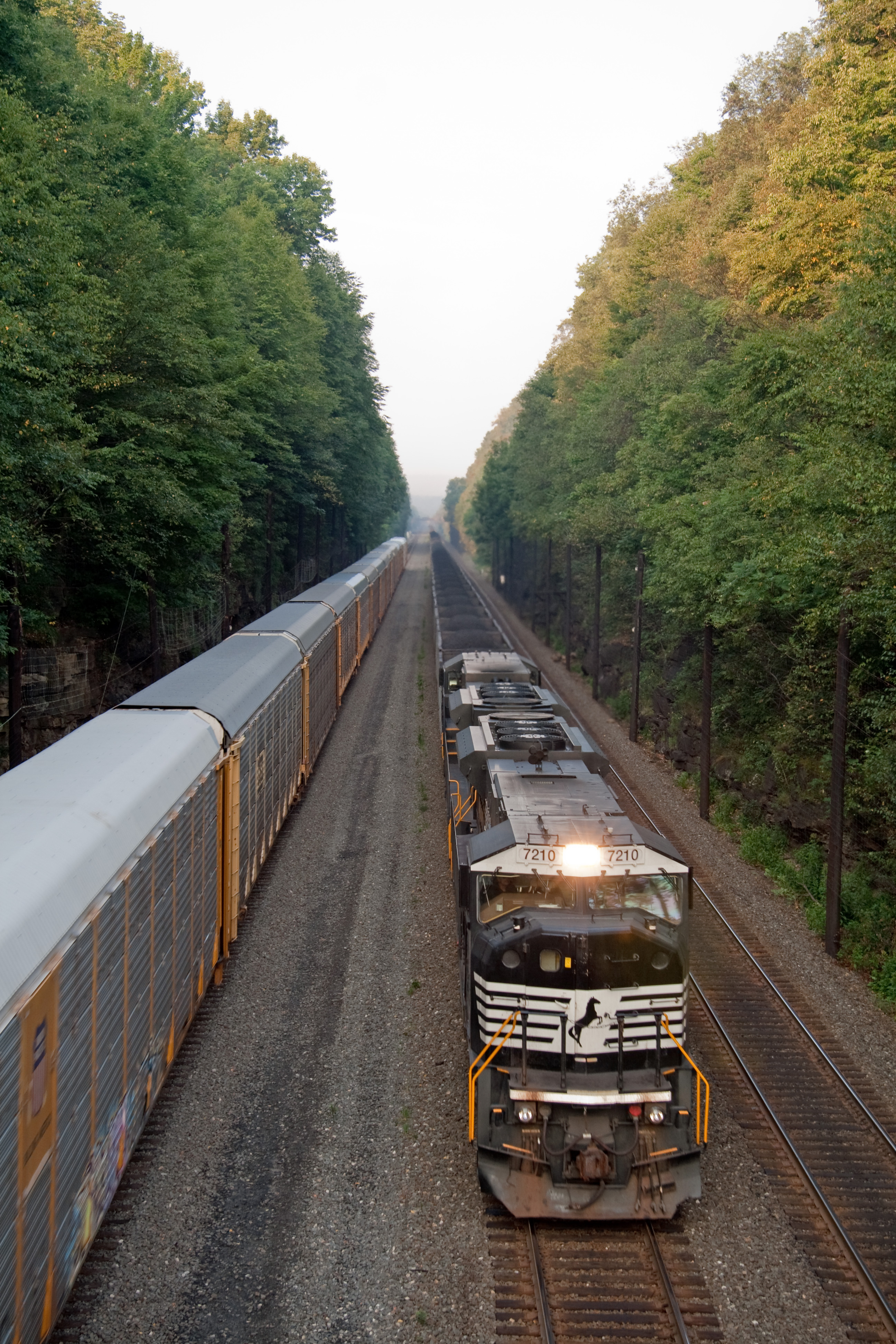 Two NS freights head east on the Pittsburgh Line.